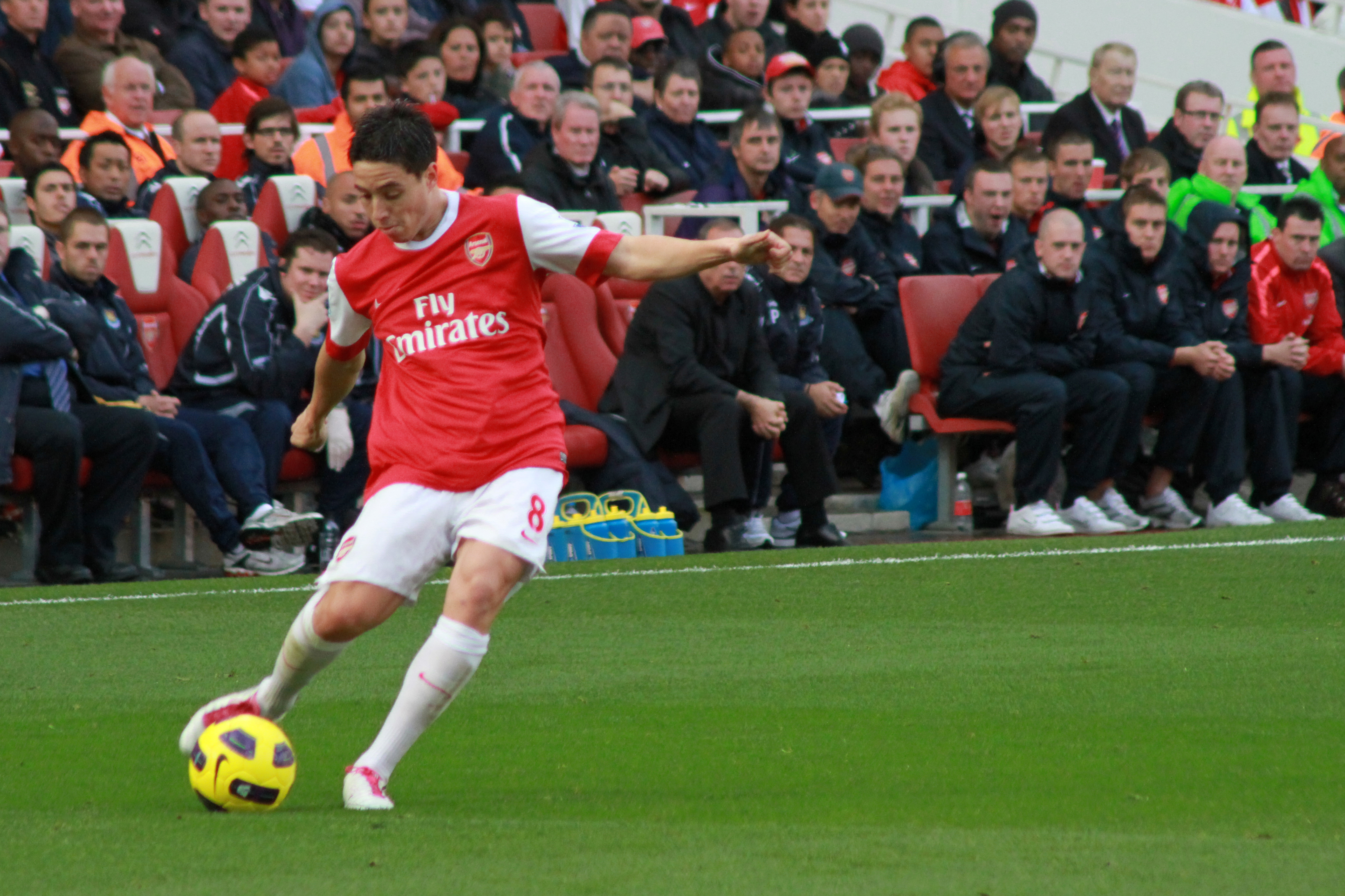 Arsenal v West Ham United at the Emirates Stadium on 30 October 2010. Arsenal won 1-0 with a late 88minute goal by Alex Song.